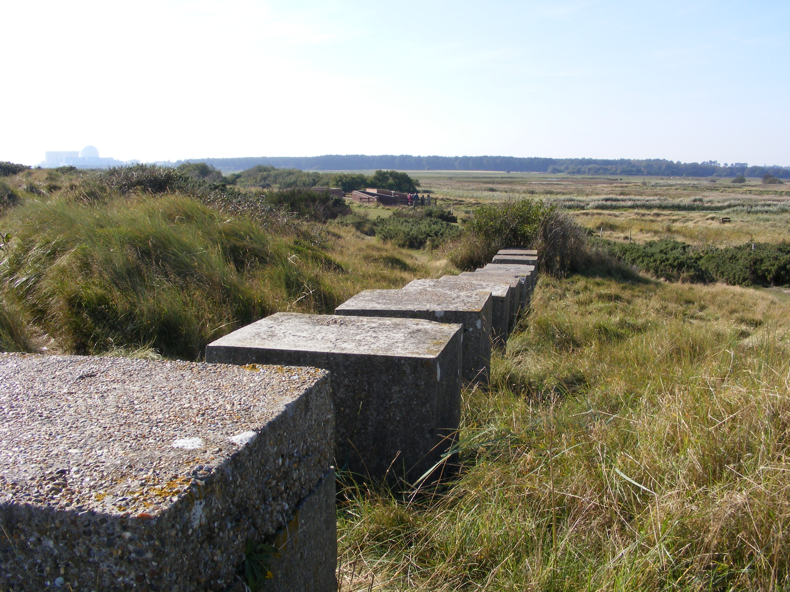 Minsmere Beach A line of WW2 tank traps heads towards The Sluice.